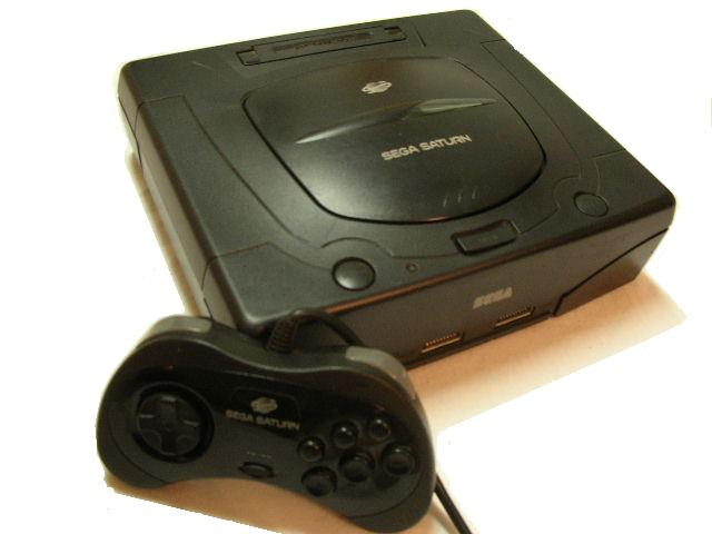 Saturn Console